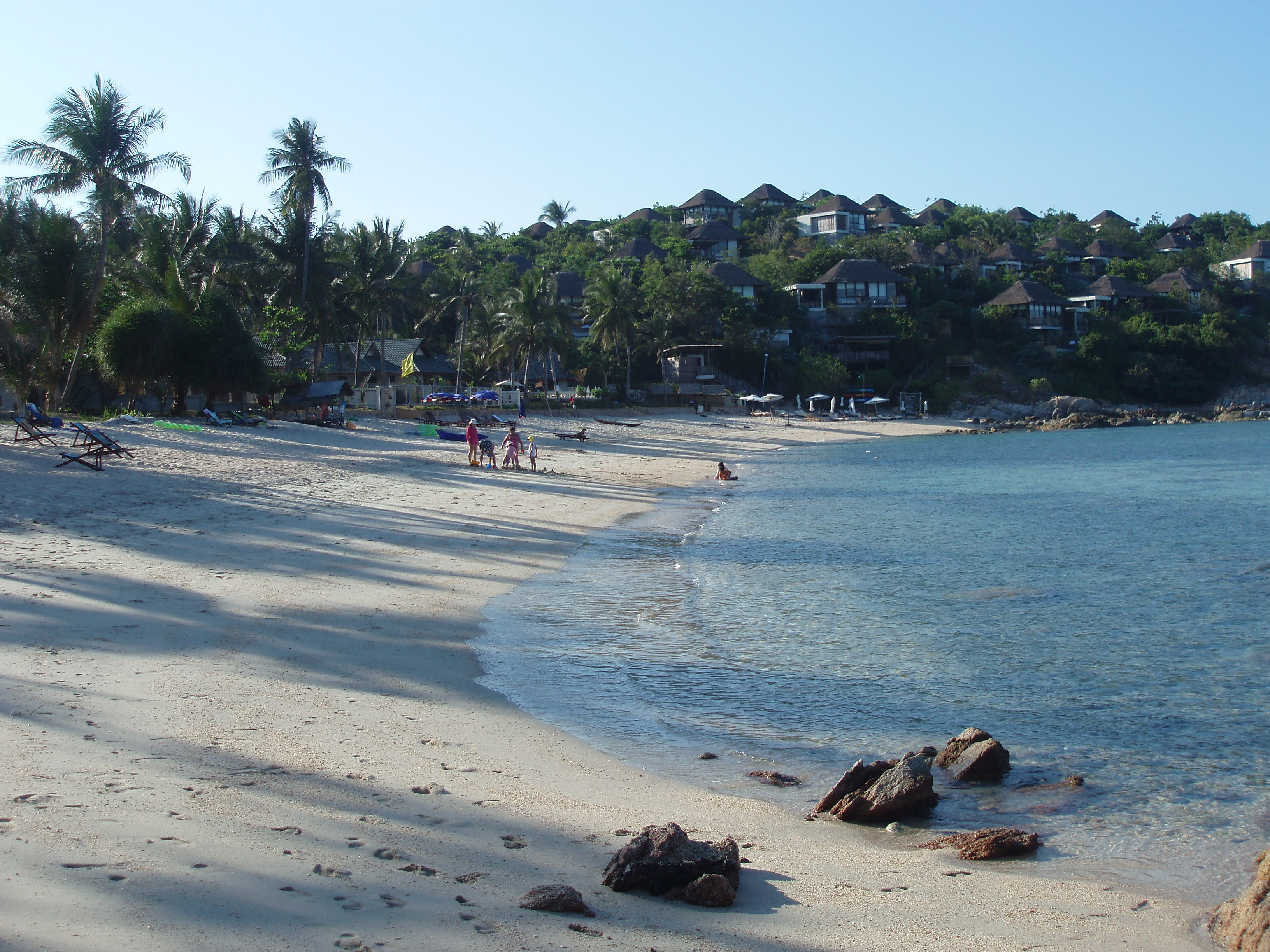 samrong bay is a secluded laguna in the north of koh samui thailand fisher boats are fishing fish and shrimps in the morning the lagoon is surrpunded by the evason hotel and a luxury beach villa resort idyllicbeachvillaresort. Nevrtheless it is quit with a great sunset october 23 by hans andre